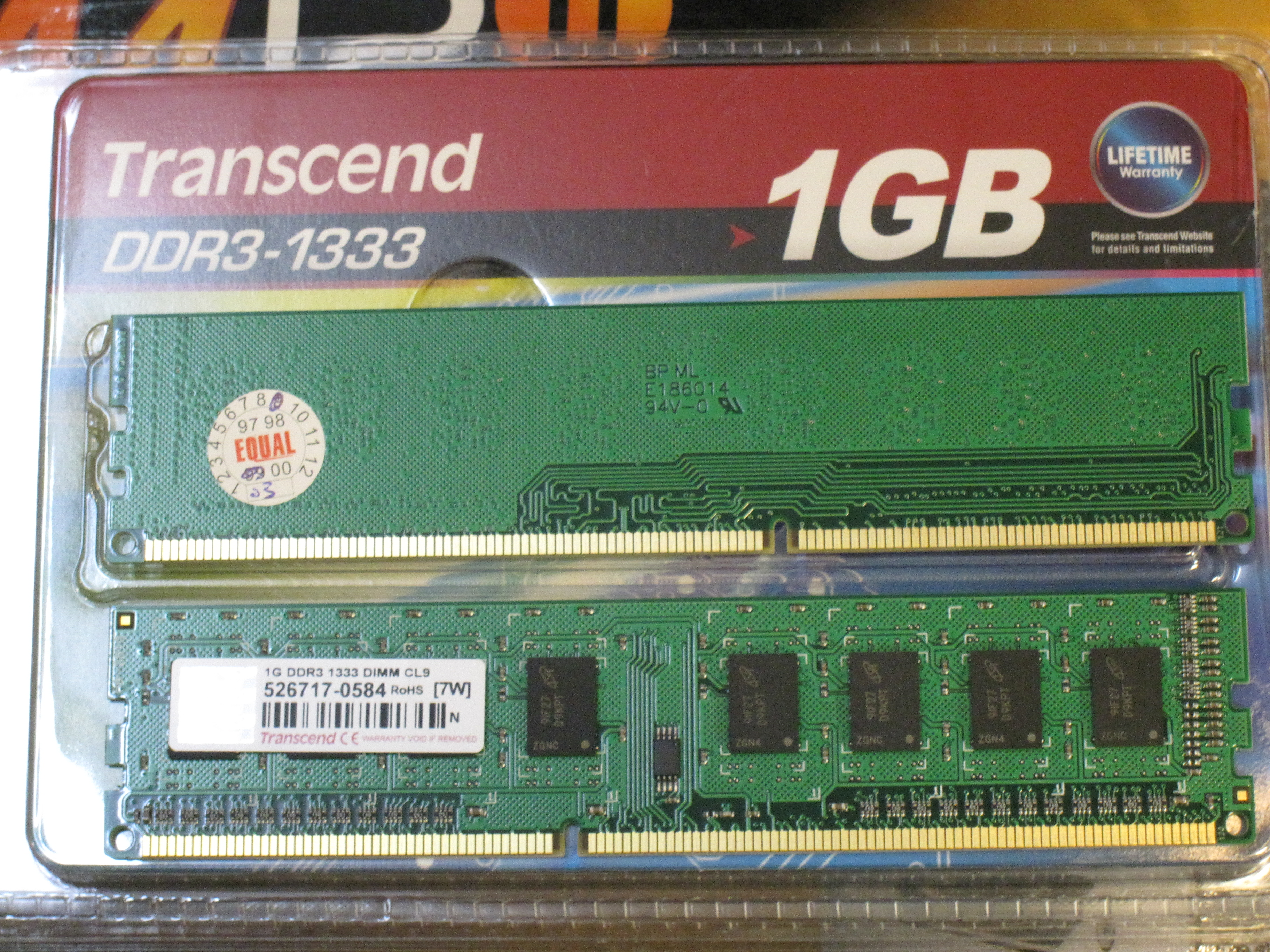 Photo of Transcend DDR3 1333 desktop PC Memory Modules.